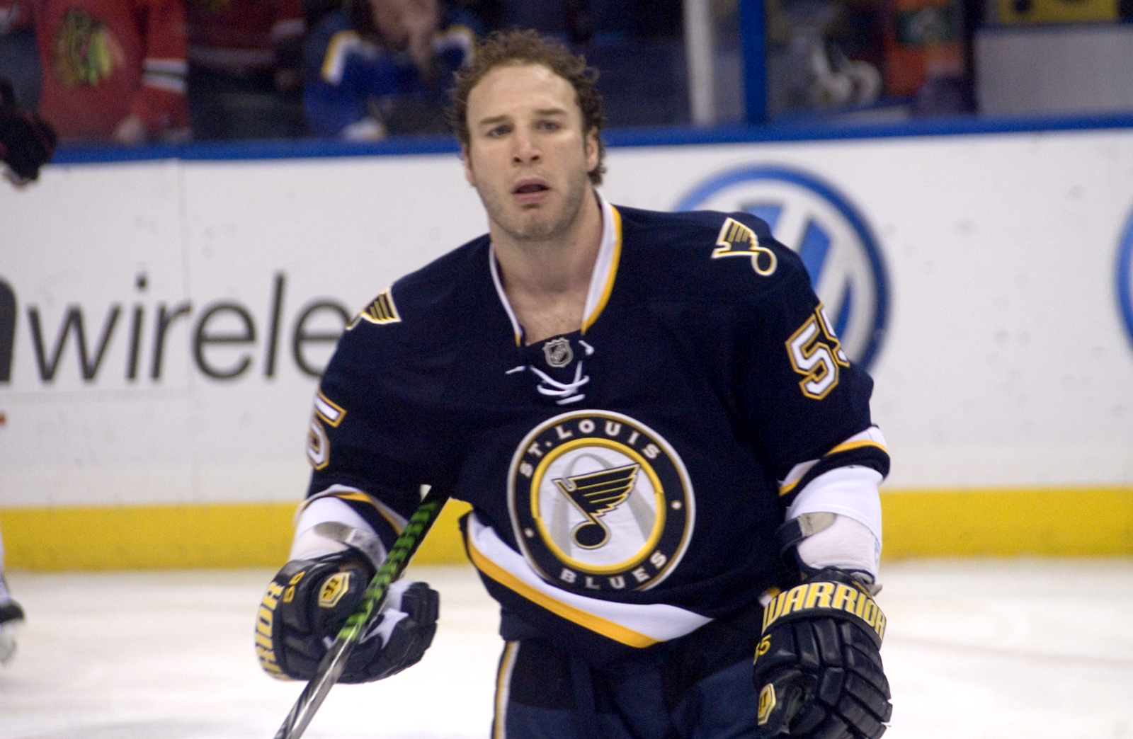 Cam Janssen, american ice hockey player